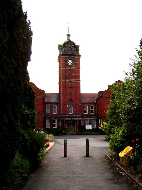 Wordsley Hospital Clock Tower This photo was taken before the hospital was closed. The tower still stands but much of the hospital has been knocked down and a housing estate is being built at the moment.